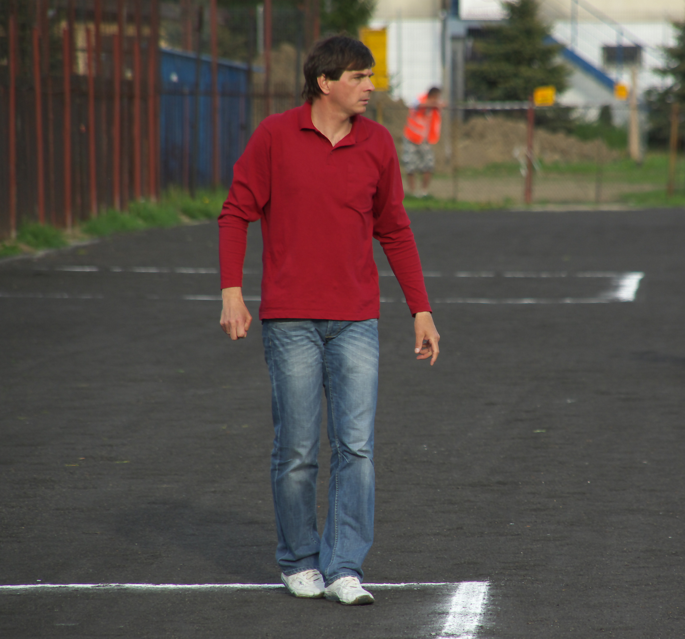 Roman Lechoszest, coach Stal Sanok